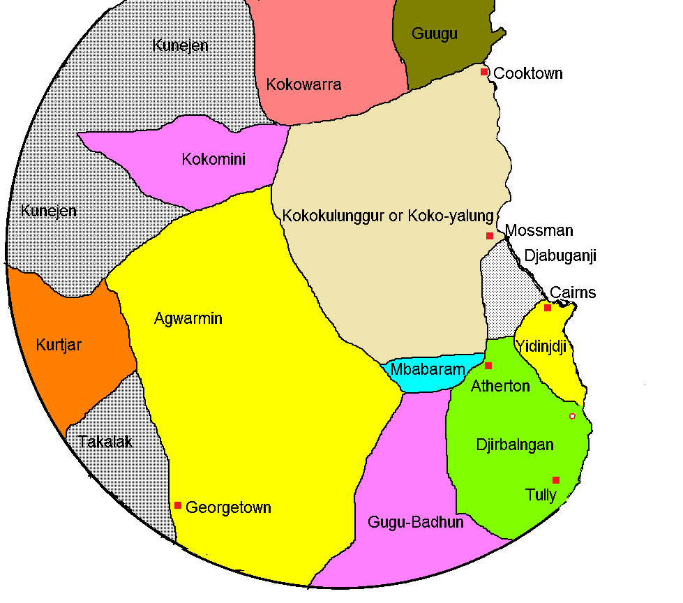 Map of the traditional lands of Australian Aboriginal tribes in the area of Cairn, Queensland